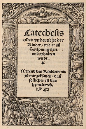 Heilbronn Katechismus 1528.jpg